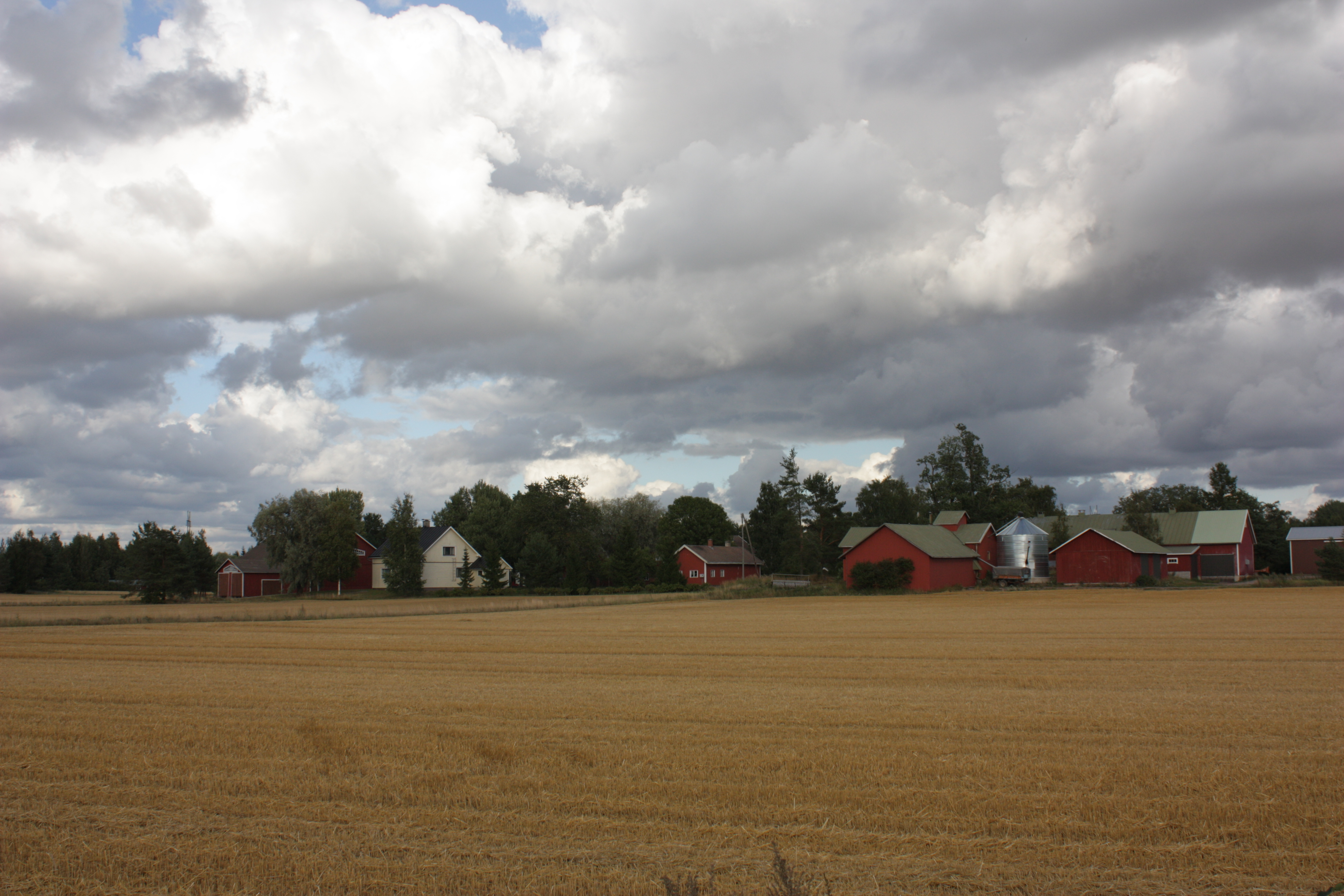 Buildings of the Antikkala village in Mietoinen, Finland Mietoisten Antikkalan kylän rakennuksia. Oikealla Antintalon talousrakennuksia, vasemmalla sen vanhanväenrakennukseksi tehdyn Kotirannan tilan pää- ja piharakennuksia.